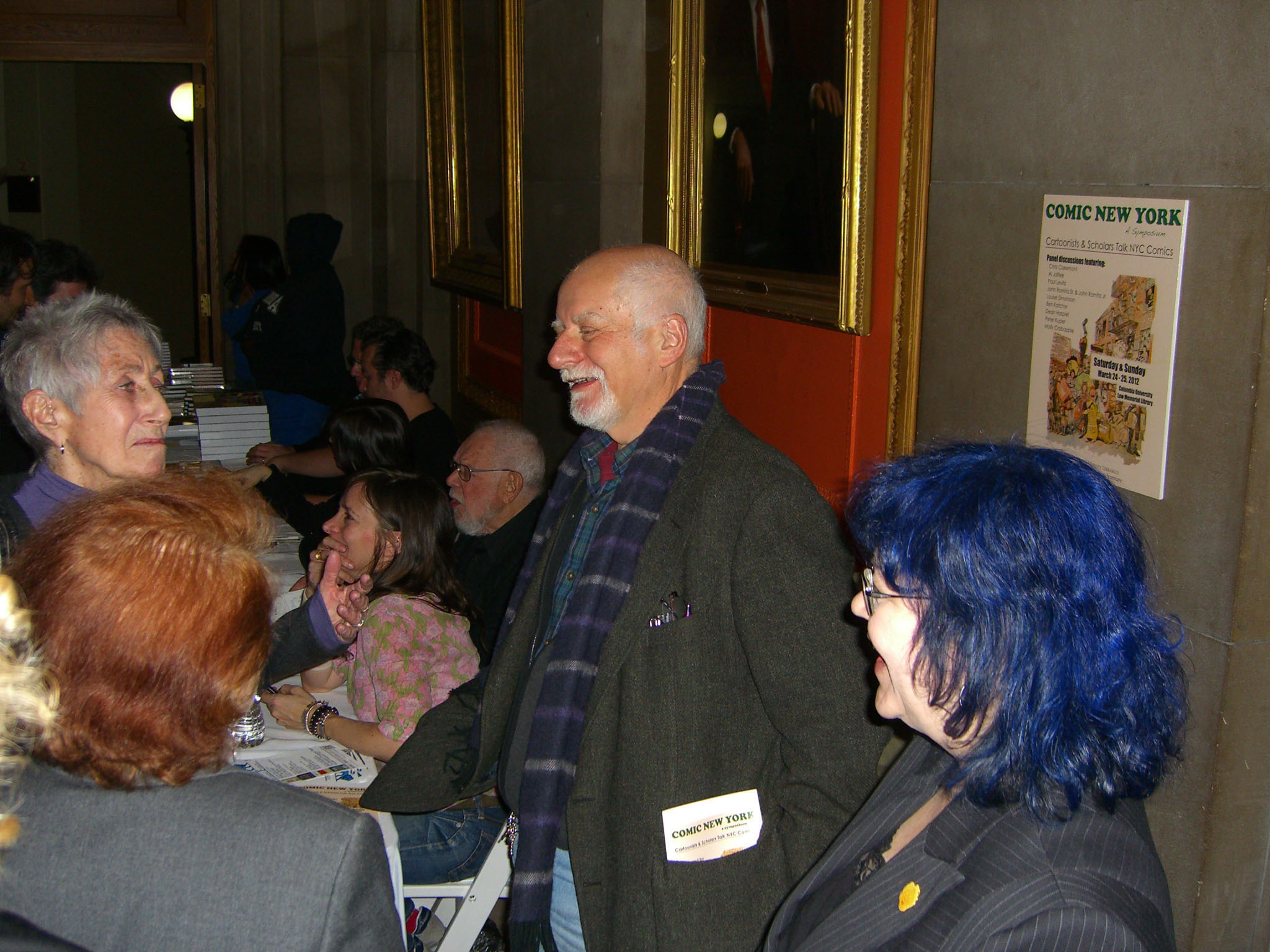 Noted Comic book writer and novelist Chris Claremont at Columbia University's Low Library on March 24, 2012, the second of the two-day Comic New York symposium. Seated behind the table signing books are fellow creators (from background to foreground) Danny Fingeroth, Dean Haspiel, Miss Lasko-Gross, Al Jaffee and Tracy White. This photo was created by Luigi Novi. It is not in the public domain, and use of this file outside of the licensing terms is a copyright violation.